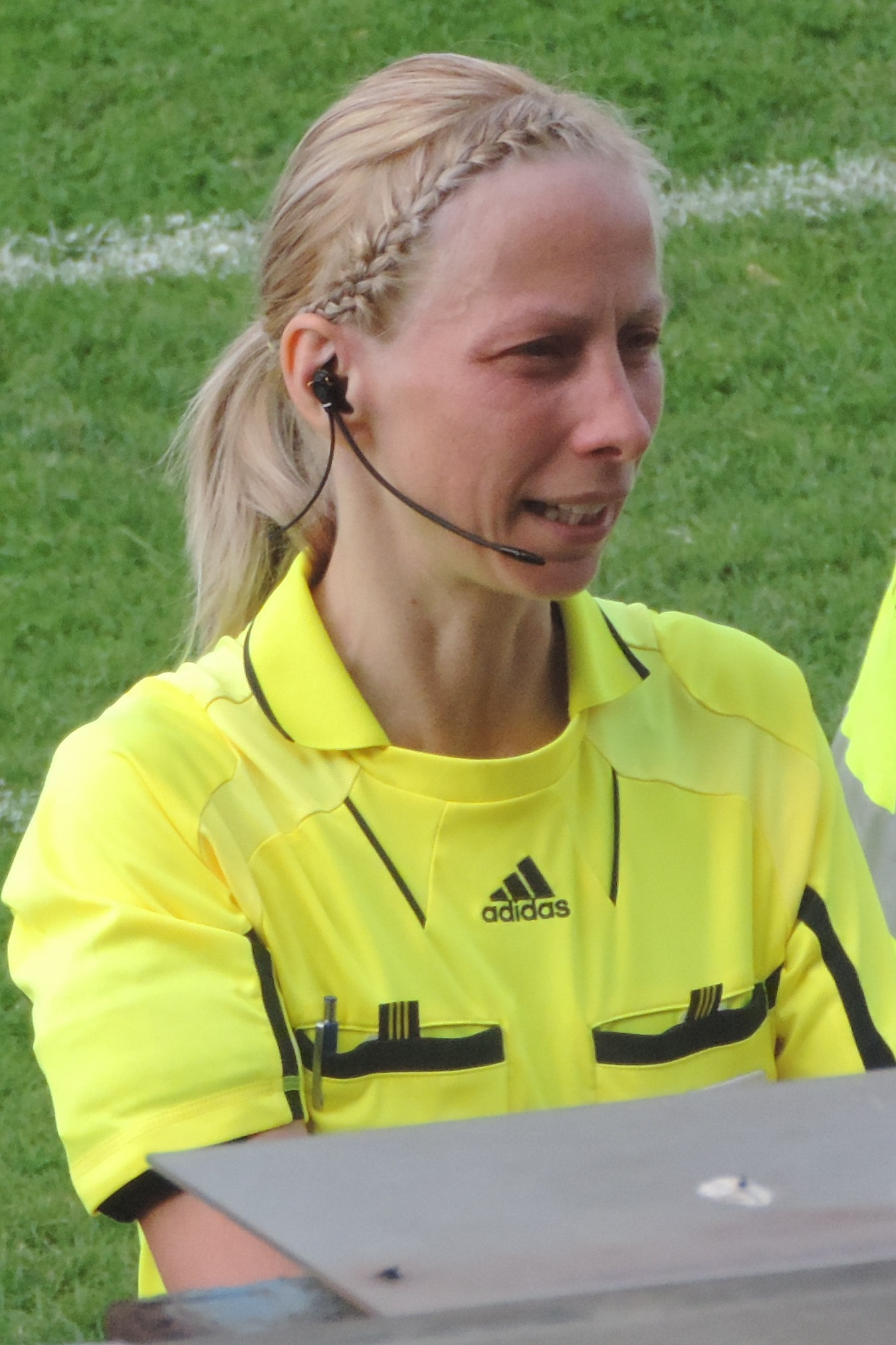 Gyöngyi Gaál, Hungarian football referee Event: Hungary-Denamrk 0-4 in Hidegkuti Stadium, Budapest